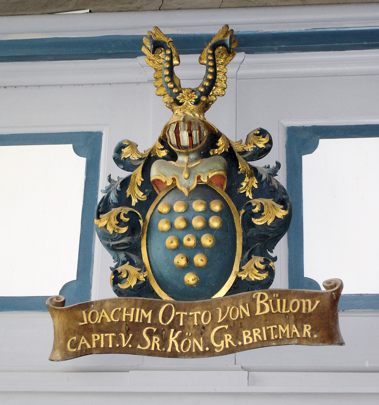 Church in Friedrichshagen, Mecklenburg, Germany